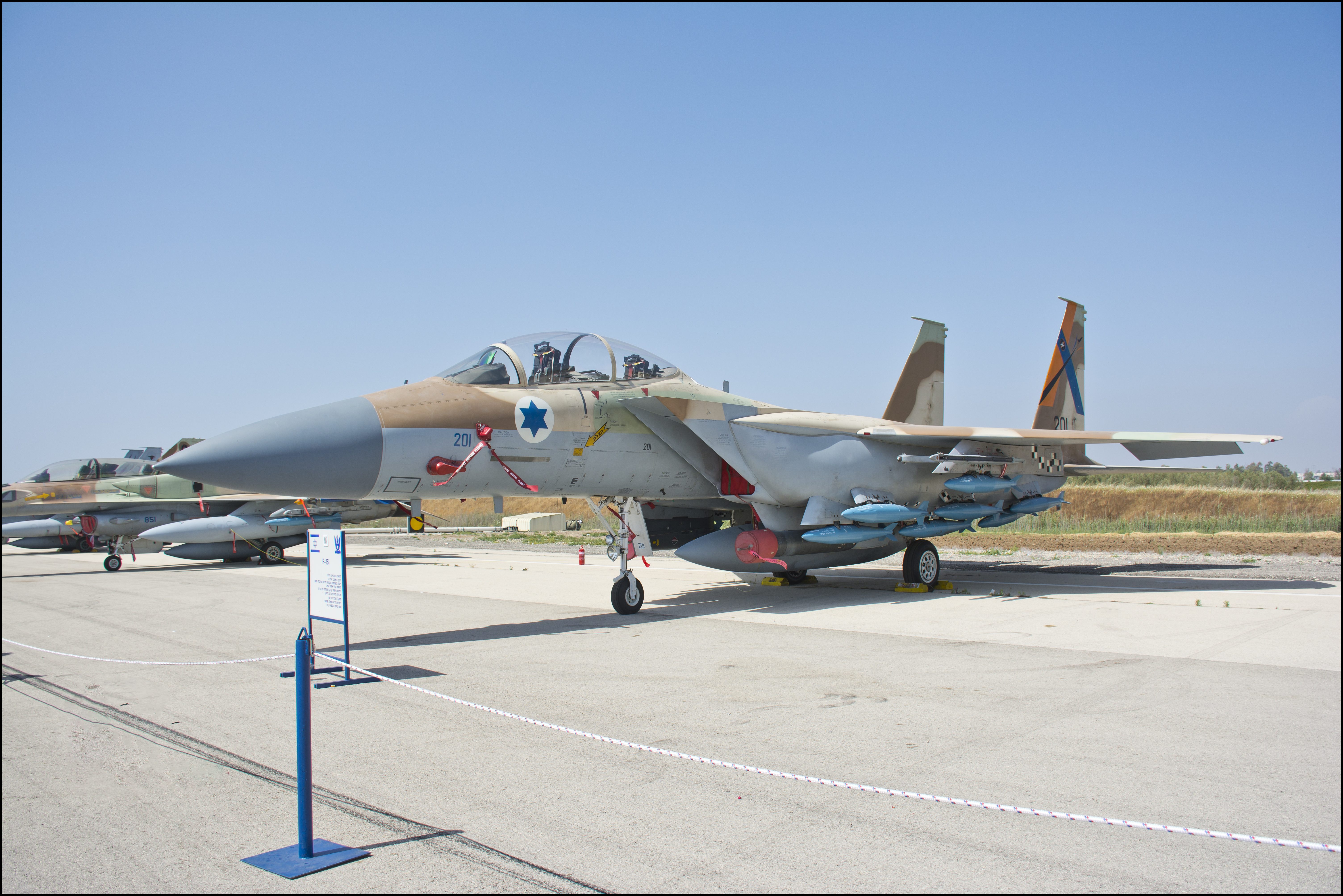 IAF F-15I Ra'am, Israeli Air Force, Independence Day 2017